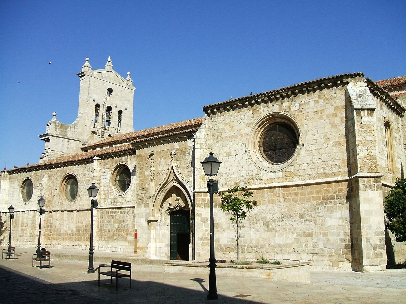 Convento de San Pablo, Palencia, España